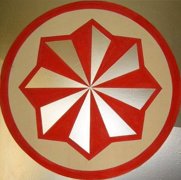 A symbol of Mordvin Native Faith and the Erzyan Mastor movement.